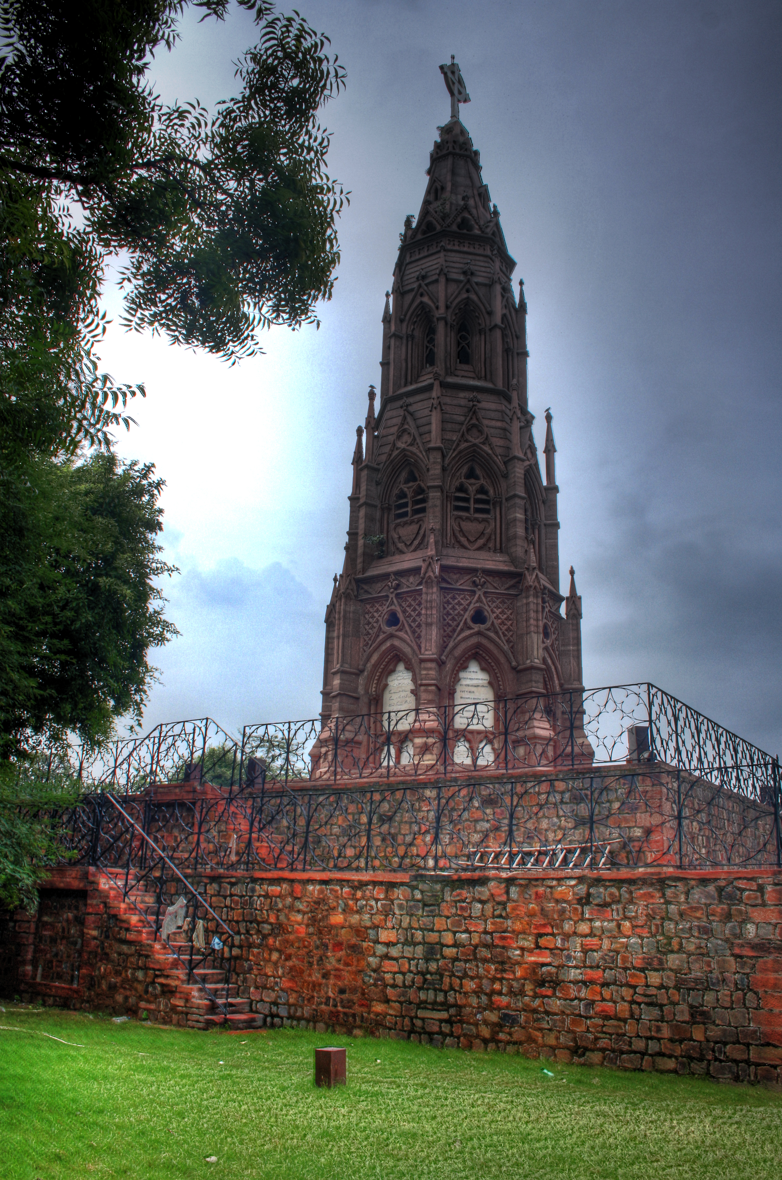 Mutiny Memorial is located near Kashmere Gate, Delhi. It was build by the British Indian Government in 1863, in memory of British Soldiers who died while recapturing Delhi during Indian Rebellion of 1857. It contains the memorial plaques of then Brigadier General John Nicholson and other British and Native officers and soldiers who died during the rebellion. The monument refers "Indian Revolutionaries" as "Enemy". Government of Free India has installed a big plaque in four languages in the front of the Monument which describes "Those who are refereed as Enemy in this memorial were Great Revolutionaries who faught for the Liberation of India from Opressive Colonial Rule". The monument building is well preserved by the Archeological Survey of India, and is in very good condition. Image is processed by using "High Dynamic range" method to achieve perfect exposure.